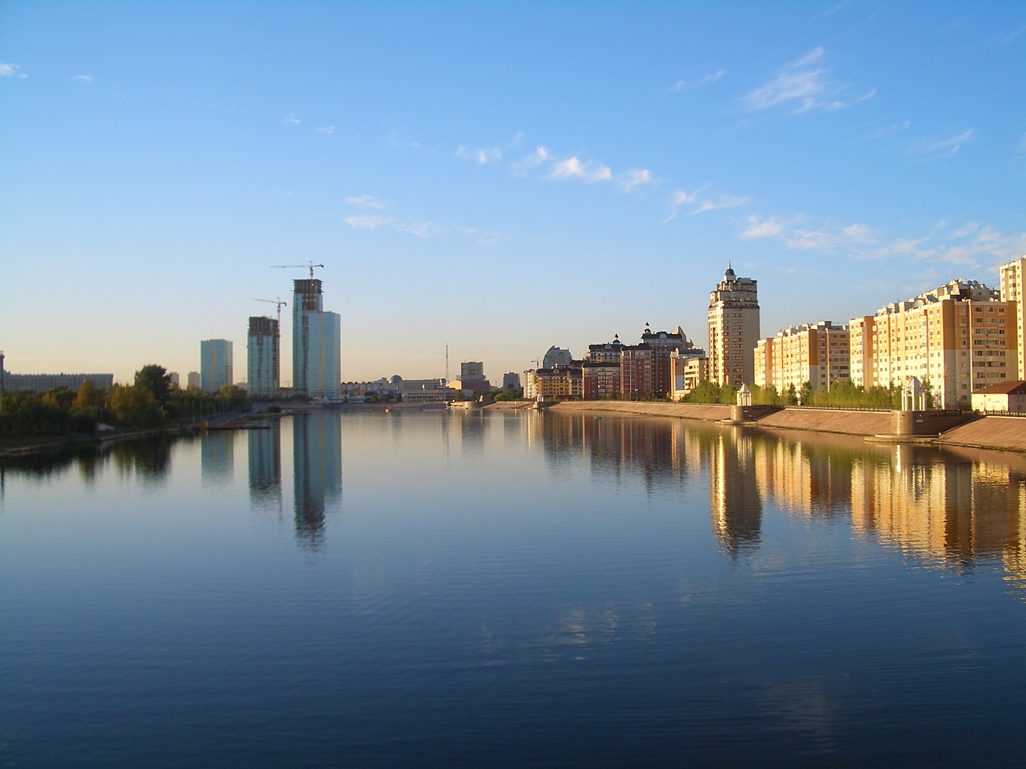 The wide expanse of the Ishim River (dammed a bit downstream, to maintain the water level) in central Nur-Sultan, Kazakhstan. The photo is taken looking west (downstream), with the city park seen on the left.